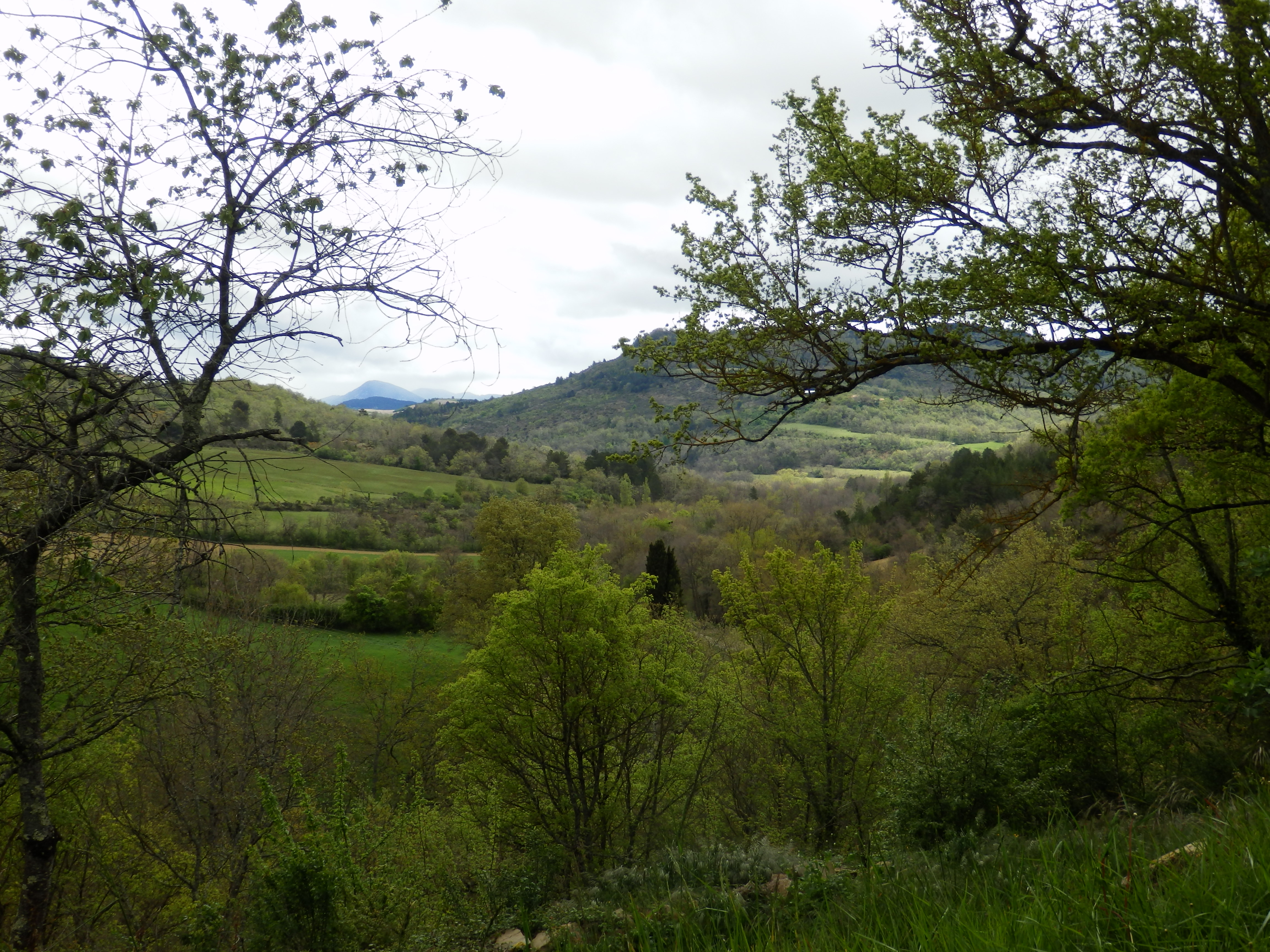 View from Bourigeole, Aude, France